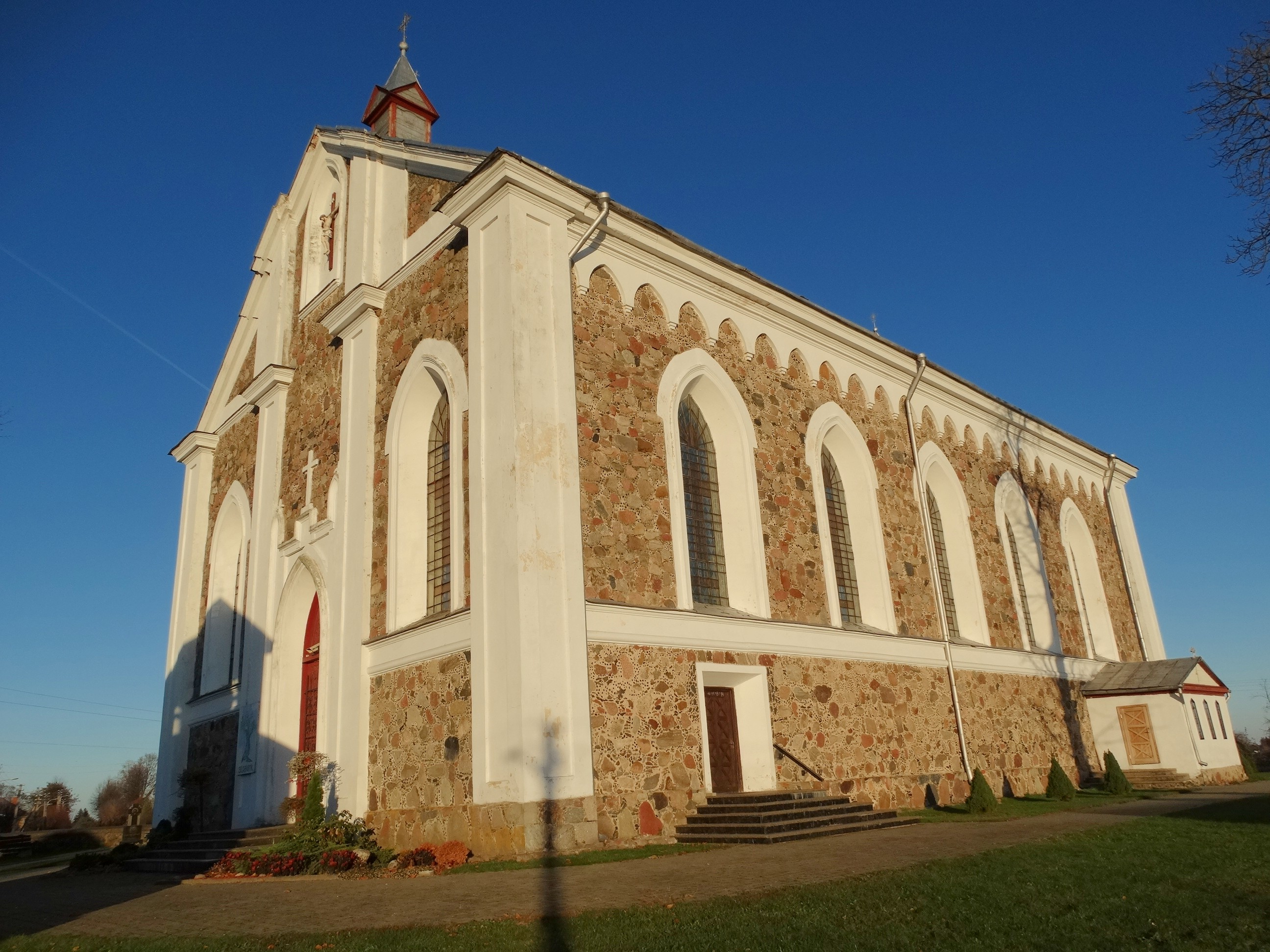 Roman Catholic Church in Daugai, Alytus district, Lithuania